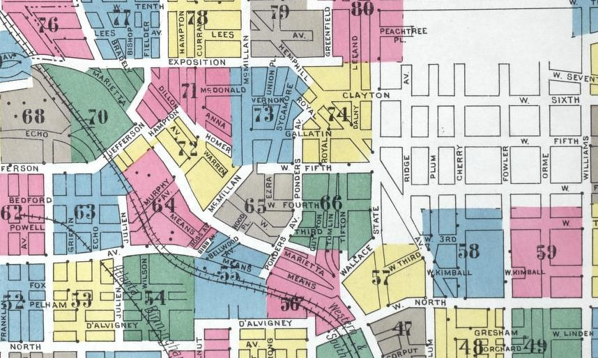 Sanborn Fire Map (index map) showing Hemphill Avenue neighborhood of Atlanta in 1911. This area is now the Georgia Tech West Campus.